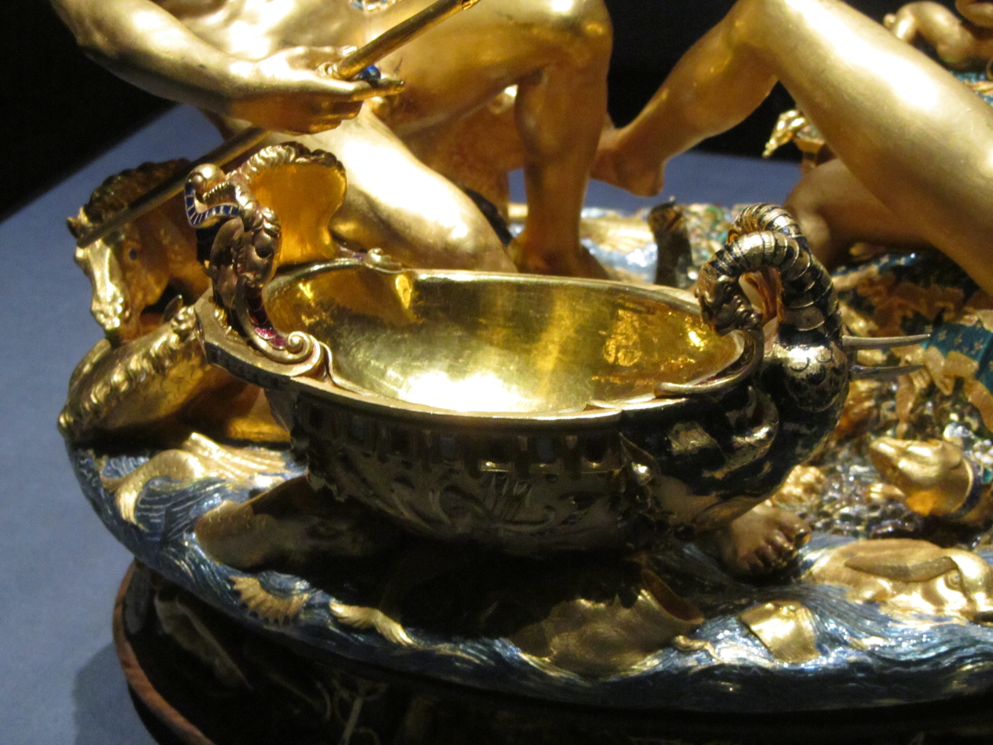 Saliera von Benvenuto Cellini (Paris, 1540–1543) Zoom-Foto from the back with little ship for the salt